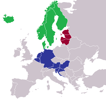 Map showing the coverage of three international European organ donation associations. blue: Eurotransplant green: Scandiatransplant dark red: Balttransplant